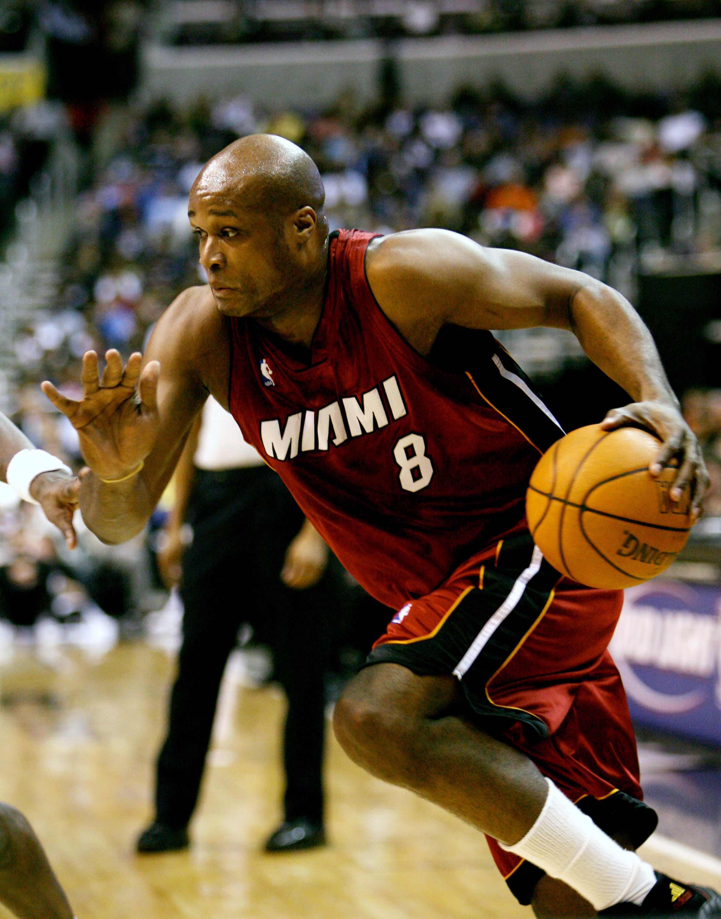 Antoine Walker playing with the Miami Heat